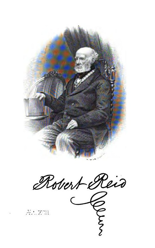 Portrait of Robert Reid (1773–1865), Scottish businessman and antiquarian